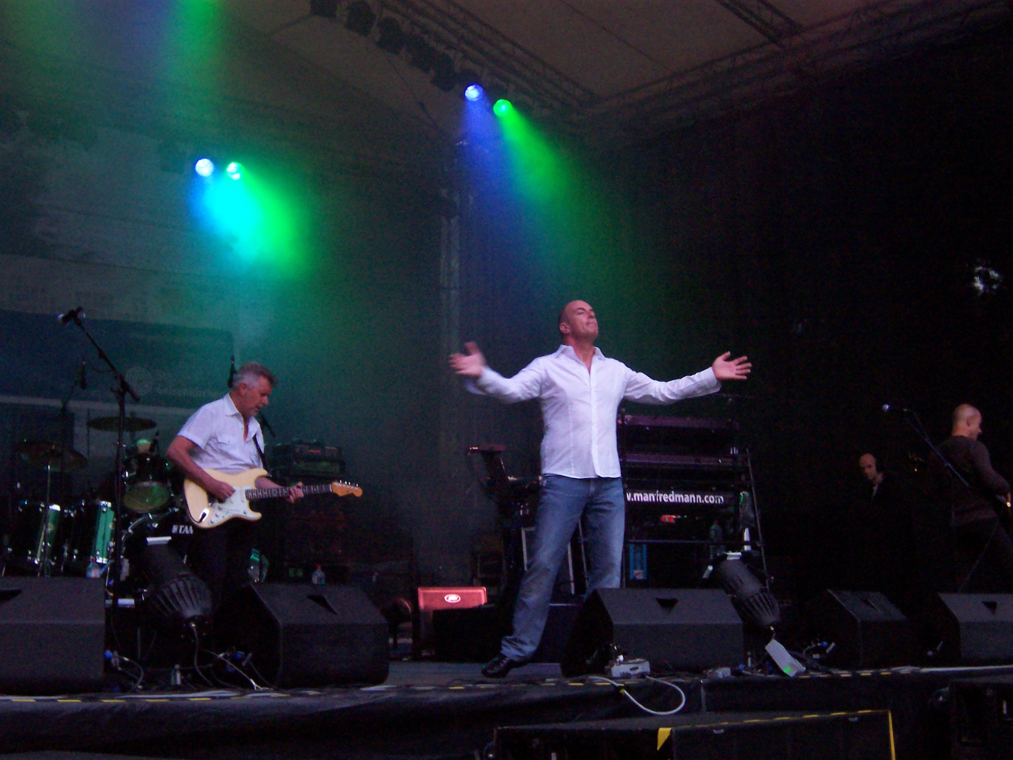 Peter Cox, the singer of Manfred Mann's Earth Band.